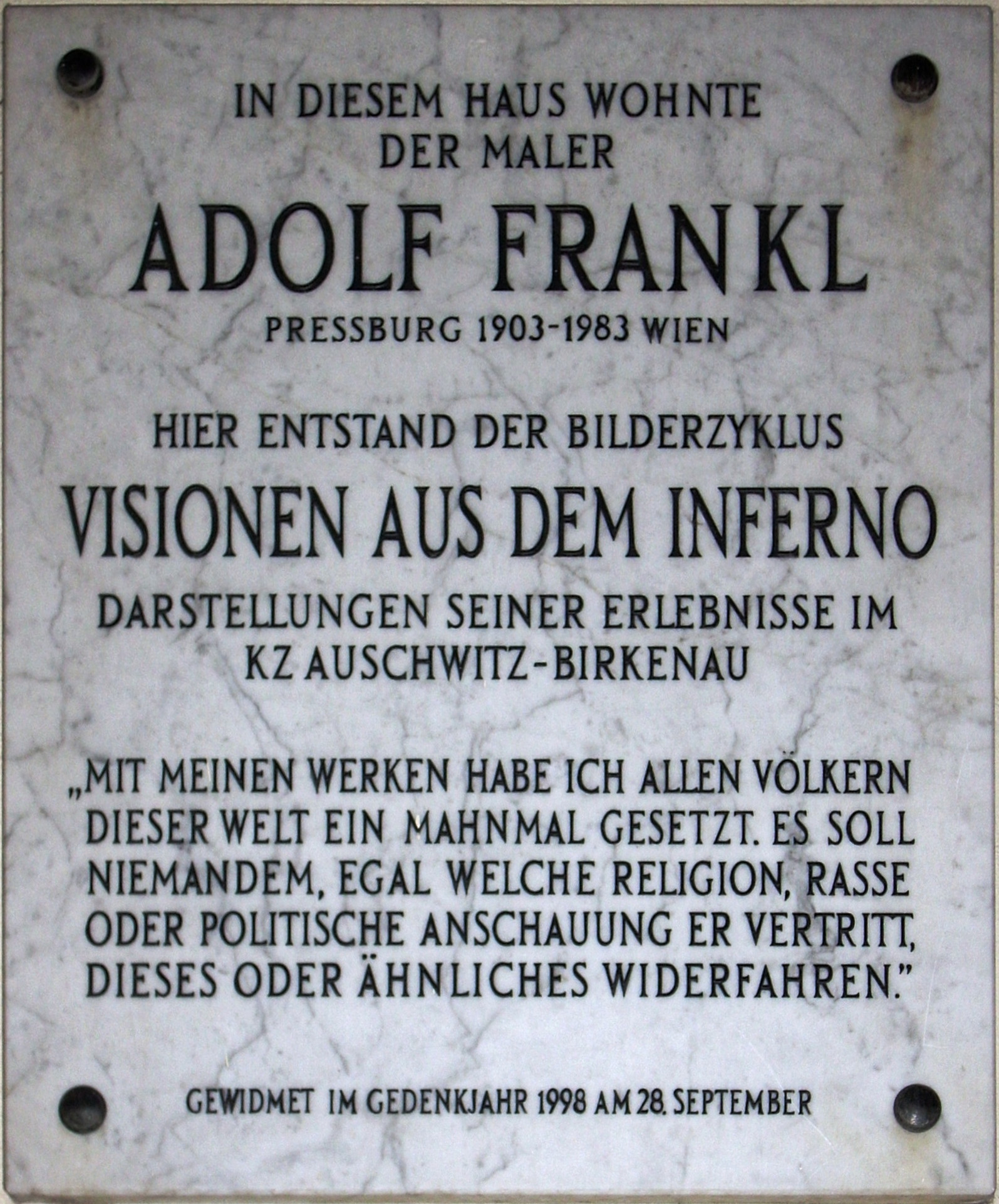 Plate about Hungarian-Austrian Jewish painter Adolf Frankl, Vienna 1, Dorotheergasse 6–8 (